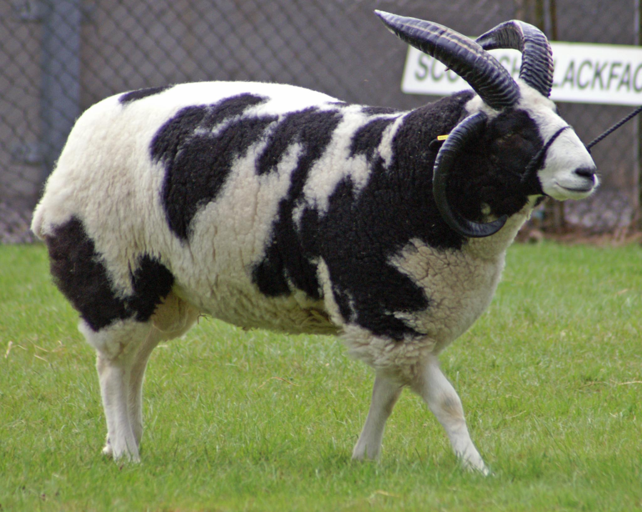 The Last Royal Show